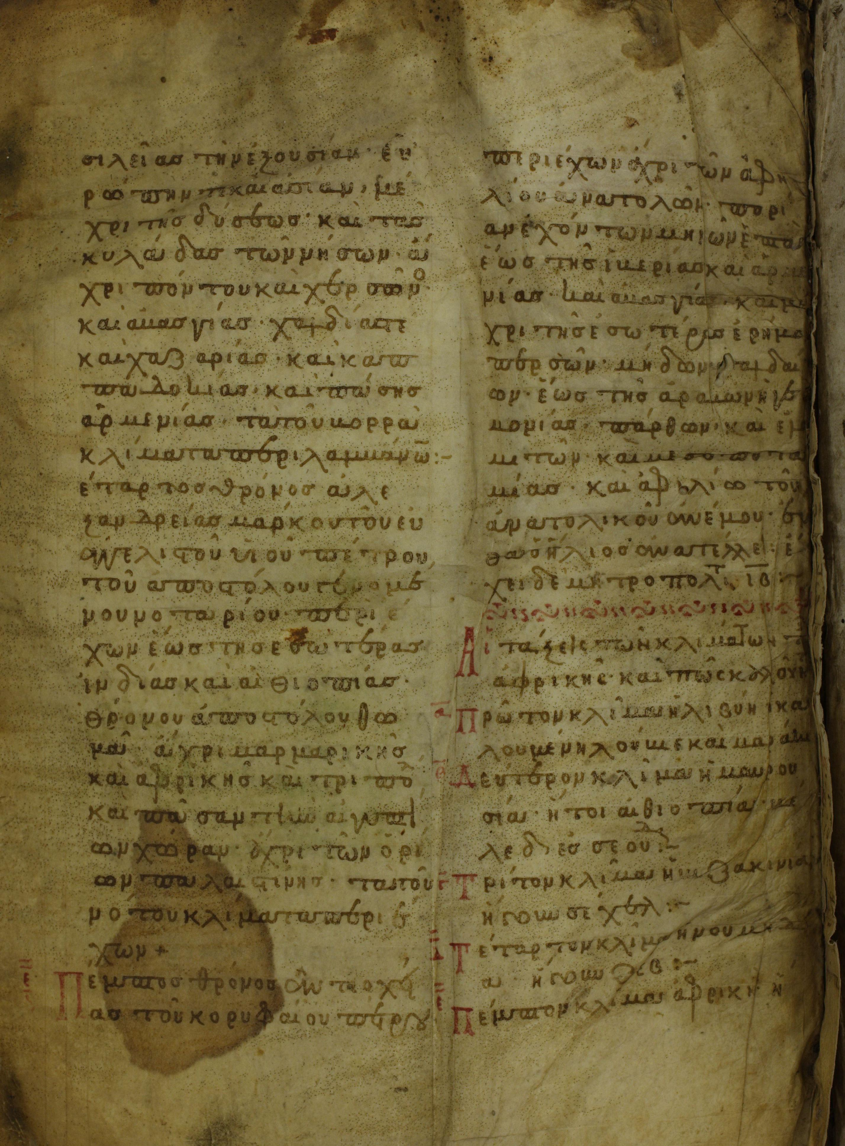 page contains non-biblical additional material "Limits of the Five Patriarchates"